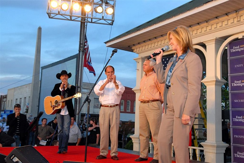 With John Rich, Rep. Wamp and Lt. Gov. Ramsey.